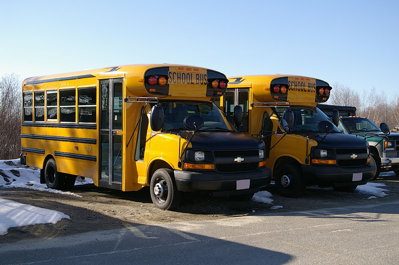 A pair of Blue Bird "Micro Bird" school buses.